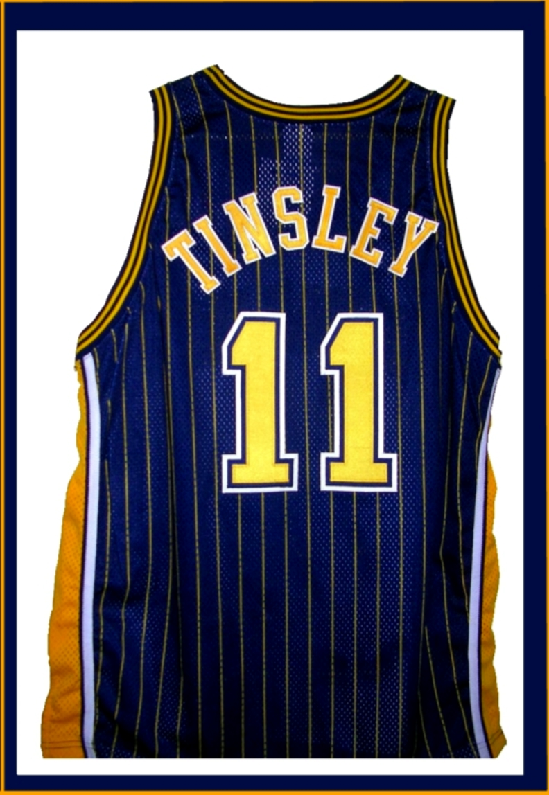 Jamaal Tinsley Indiana Pacers away uniform from 2001. The Pacers wore the pinstripe uniforms from 1997-2005. This authentic jersey is made by Champion and was issued to Tinsley shortly after he was drafted. The photograph was taken from the uploader's sports memorabilia collection with a Nikon Coolpix e3200 digital camera and edited using ArcSoft PhotoStudio 5.5